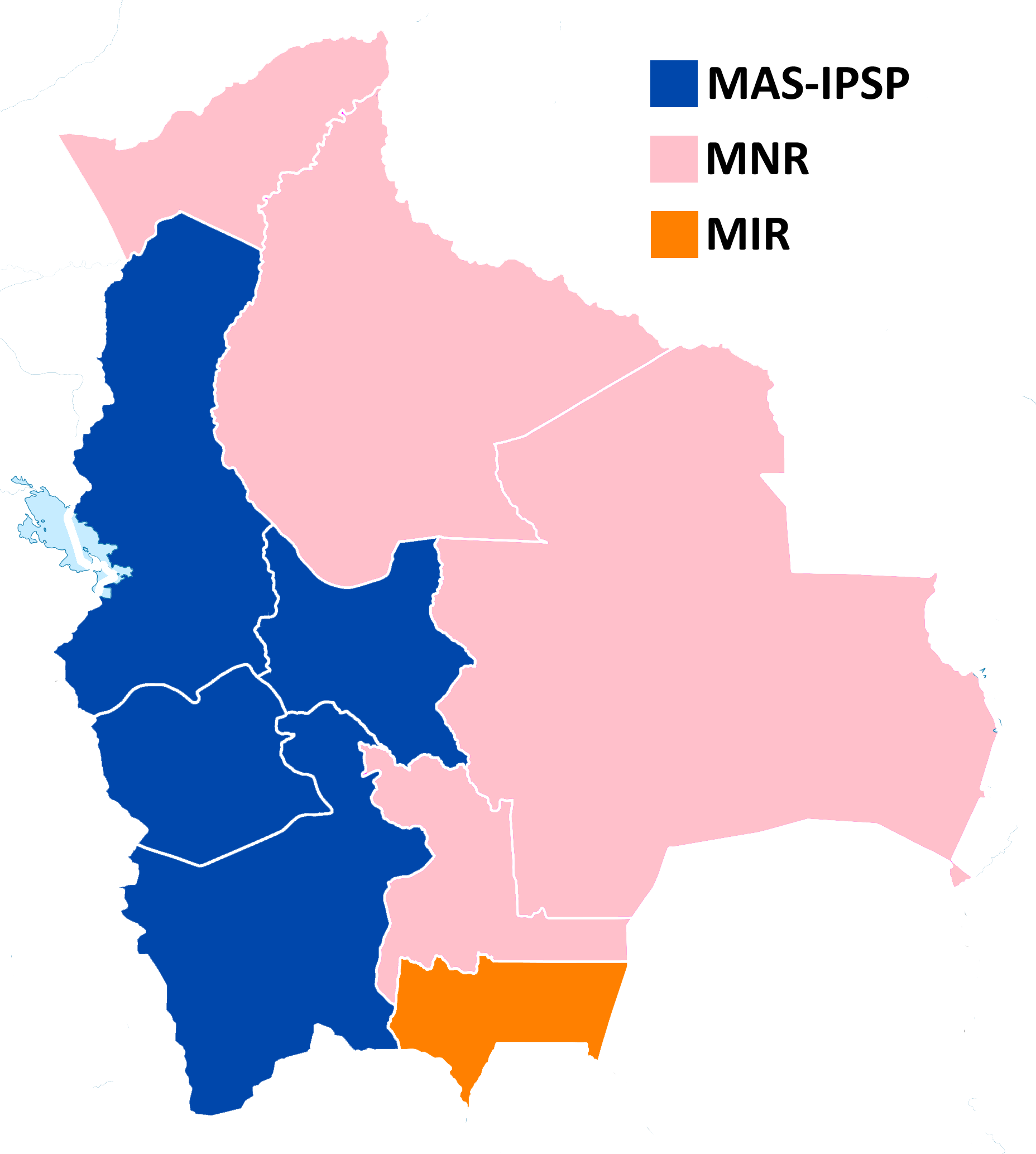 Bolivian elections of 2002.